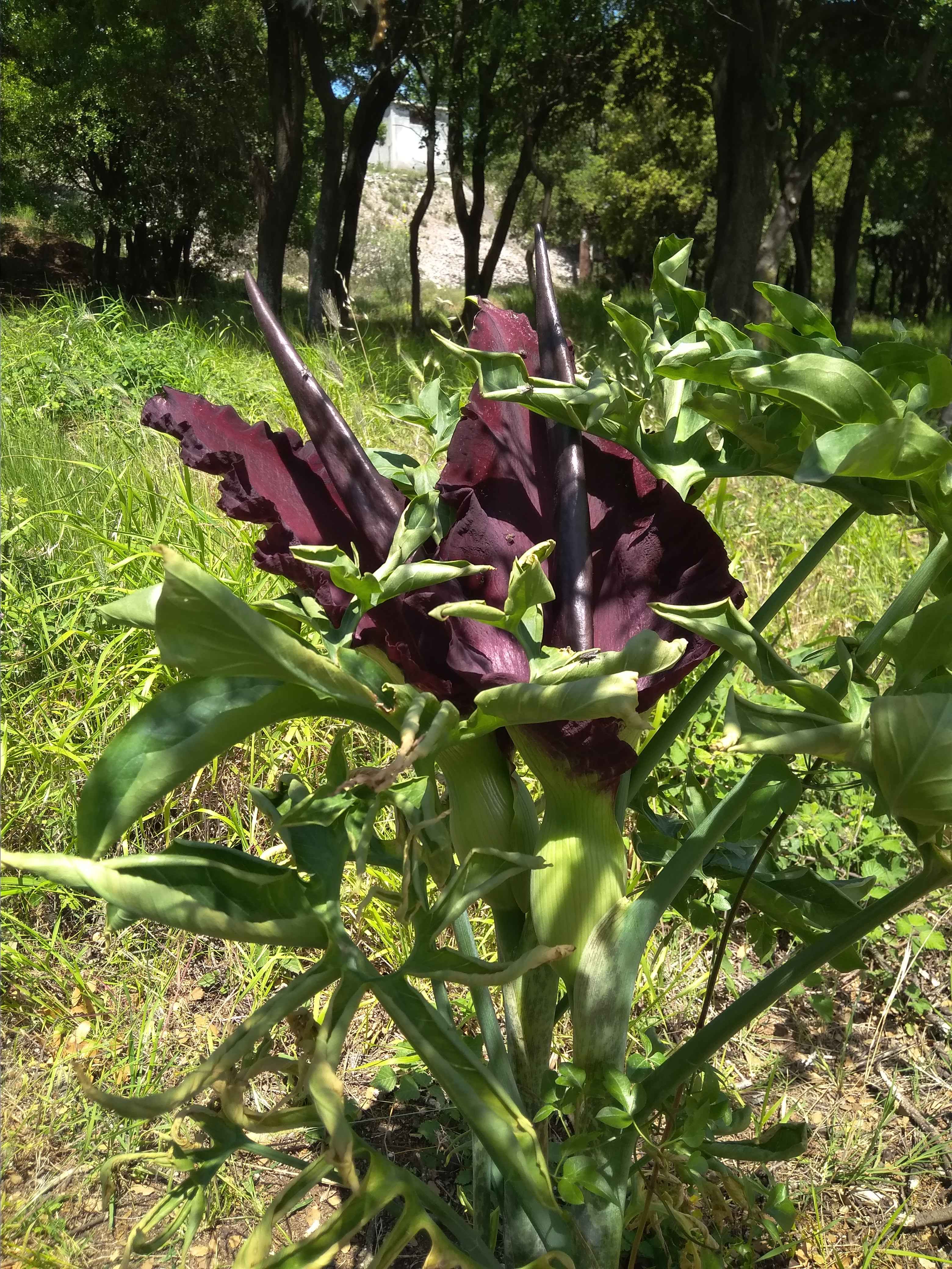 This is a photography of Natura 2000 protected area with ID GR1440002